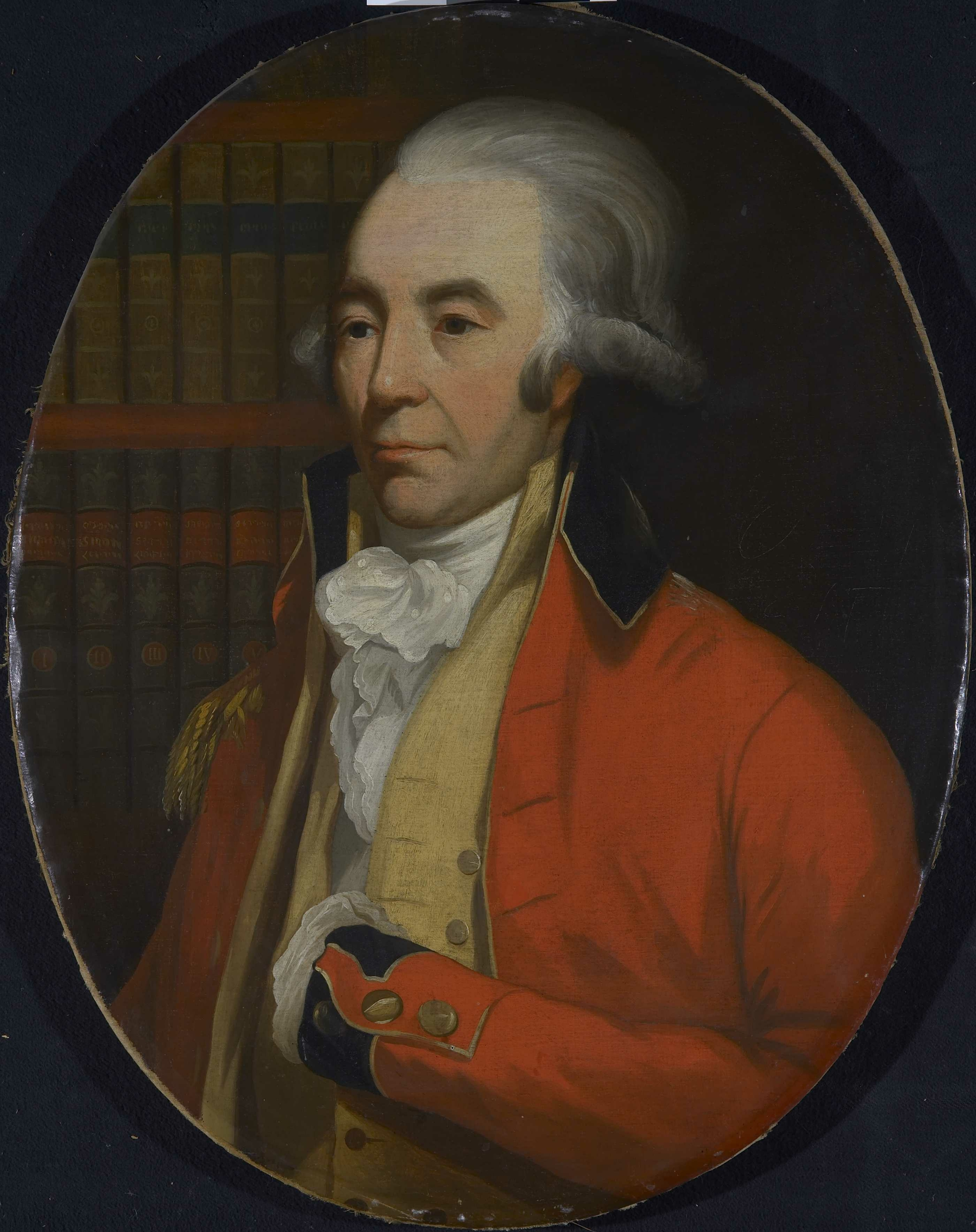 Norwegian supreme court judge and civil engineer Ole Christopher Wessel (1744–1794).